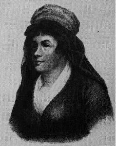 Charlotte Smith 1749-1806